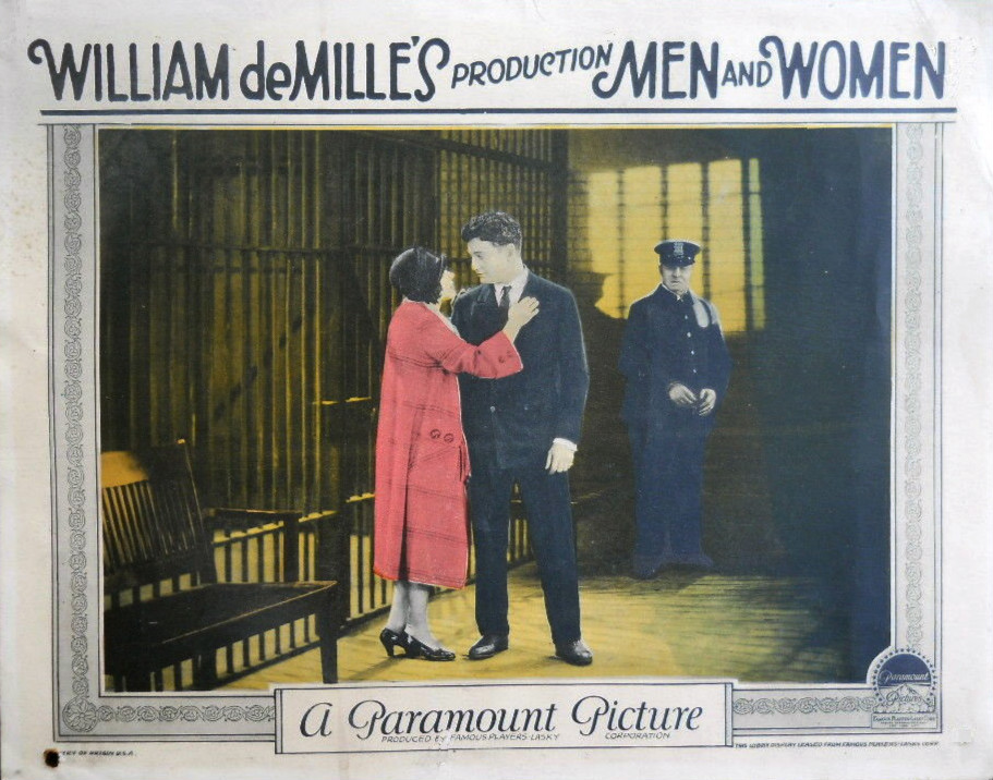 Lobby card for the American drama film Men and Women (1925). There are no copyright marks as can be seen at the links. At bottom left is Country of origin USA. At bottom right is This lobby display leased from Paramount Famous Lasky Corporation.